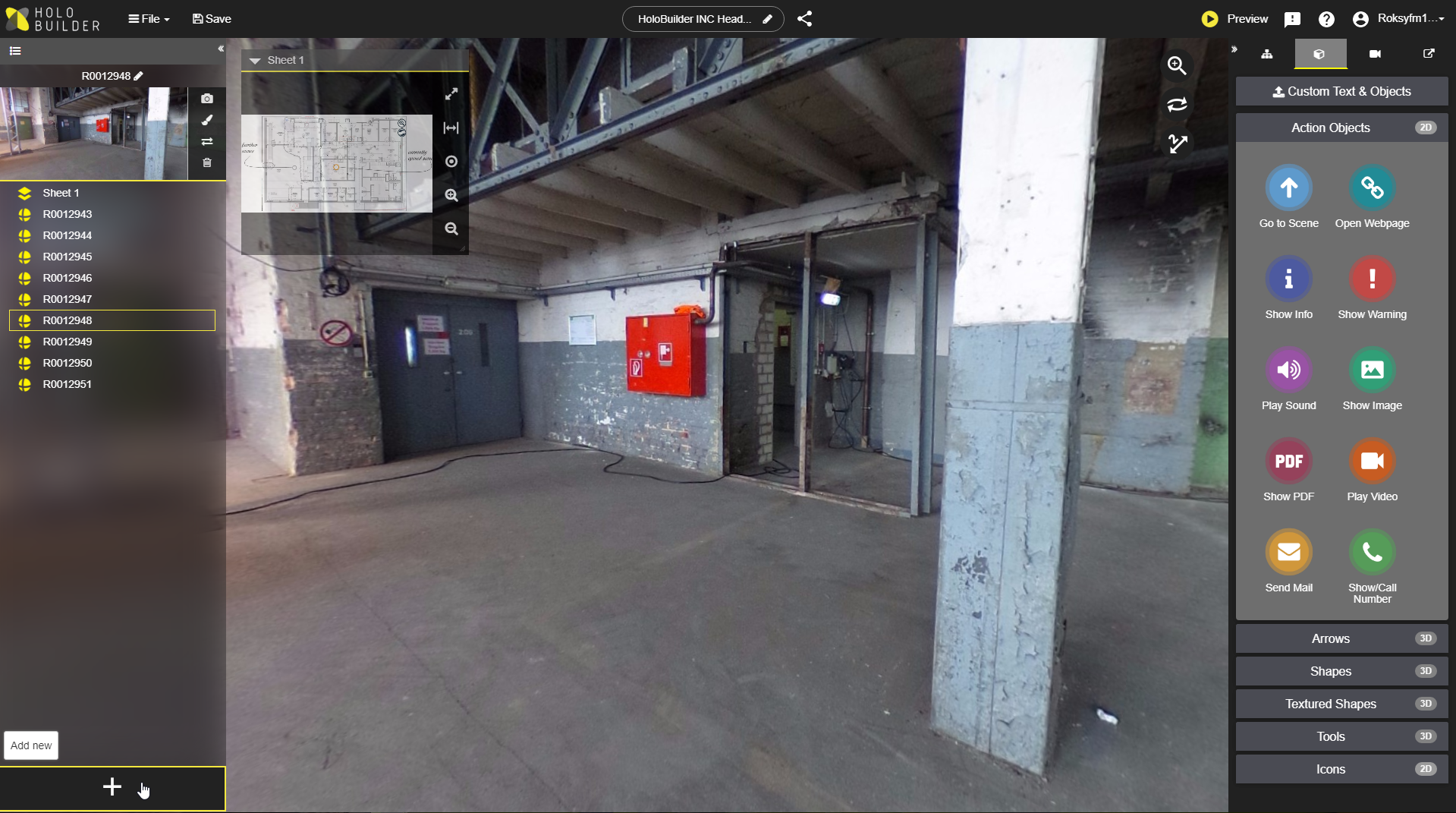 Screenshot of the HoloBuilder editor view.